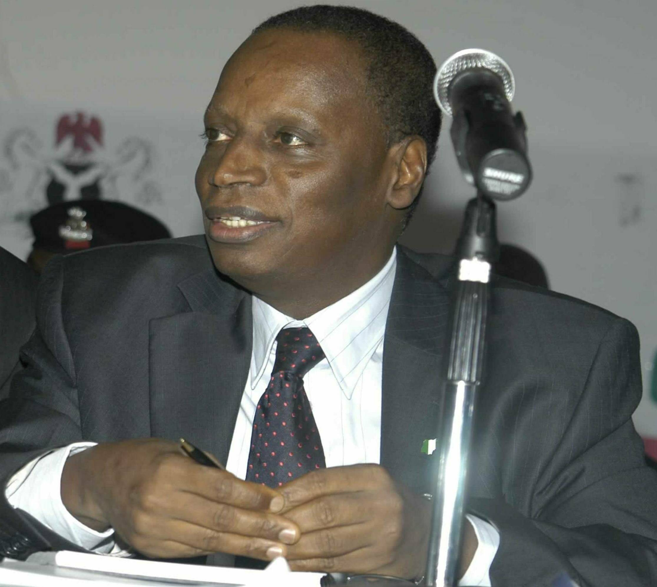 Dr Shamsuddeen Usman at a conference as the Minister of Finance in 2007.